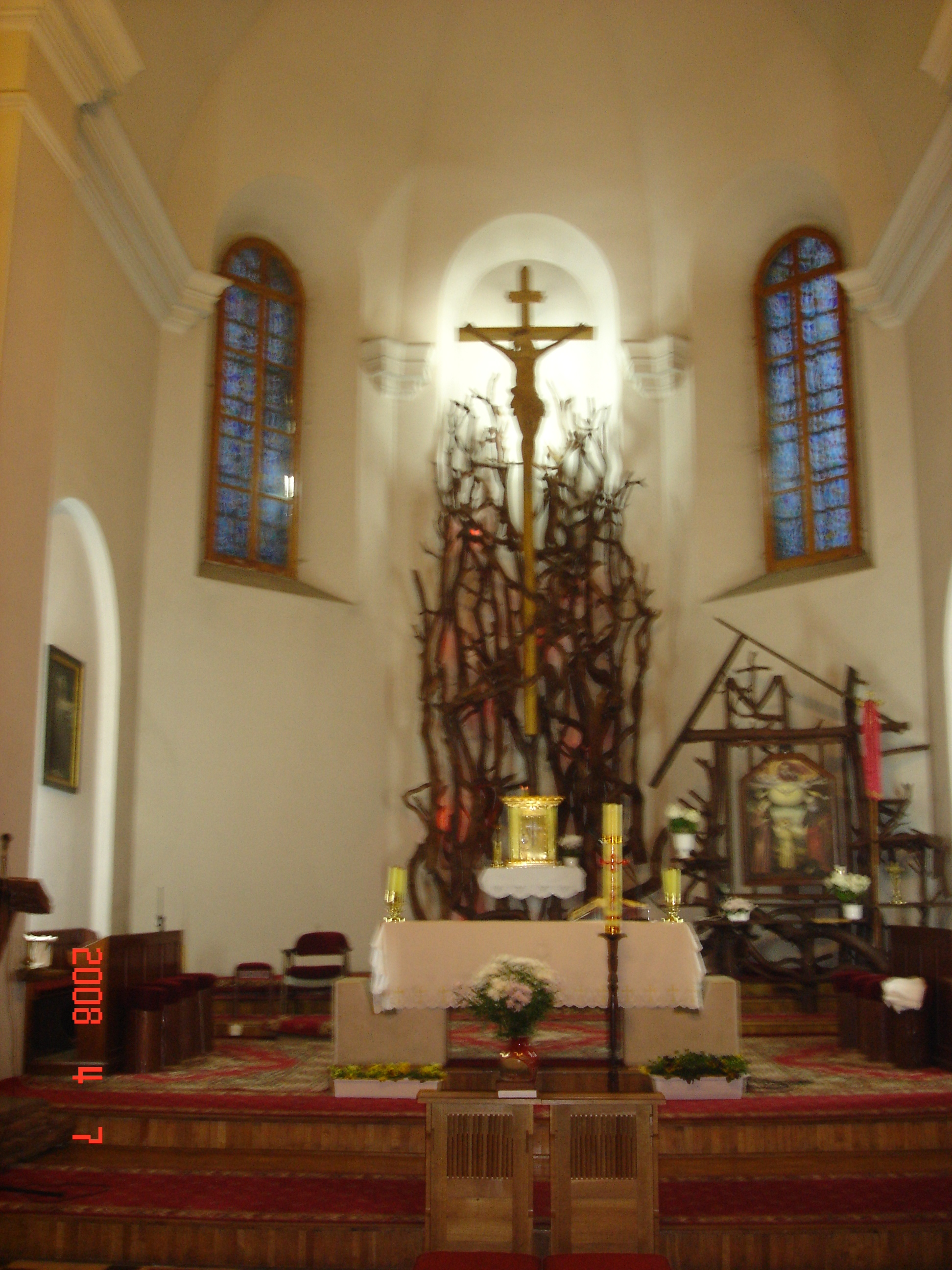 Category:Church of St. Teresa in Białowieża